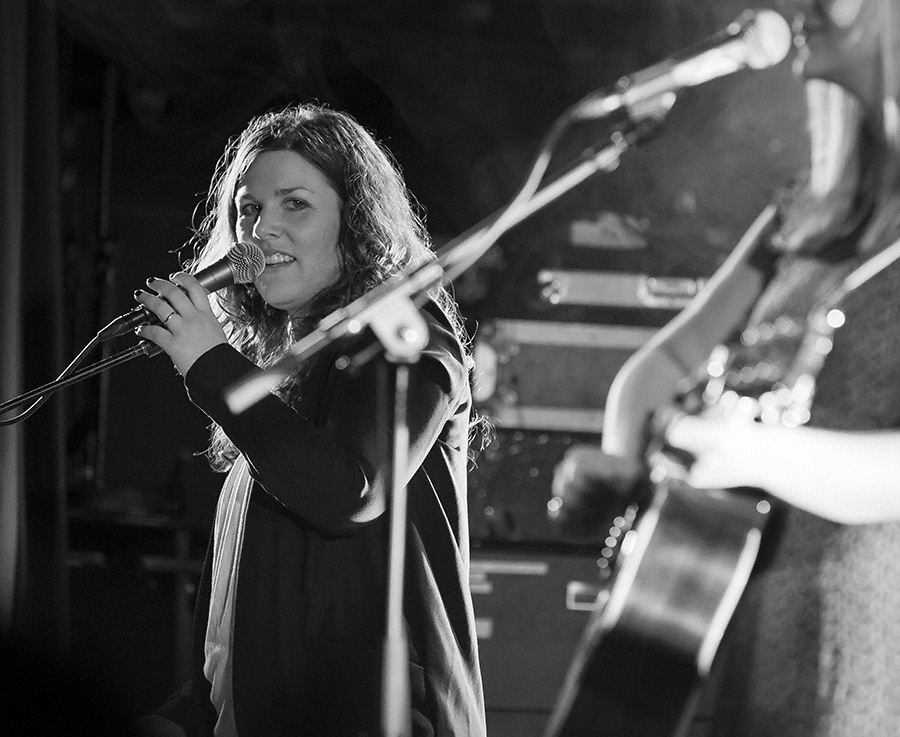 Jannicke Larsen at the reunion concert with Ephemera at Parkteatret in Oslo on 16.04.2016. Lineup:Jannicke Larsen (keyboard)Ingerlise Størksen (guitar)Christine Sandtorv (guitar)